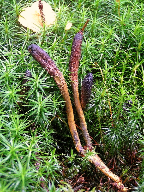 Elaphocordyceps ophioglossoides [1] (syn: Cordyceps ophioglossoides) - Clavicipitaceae